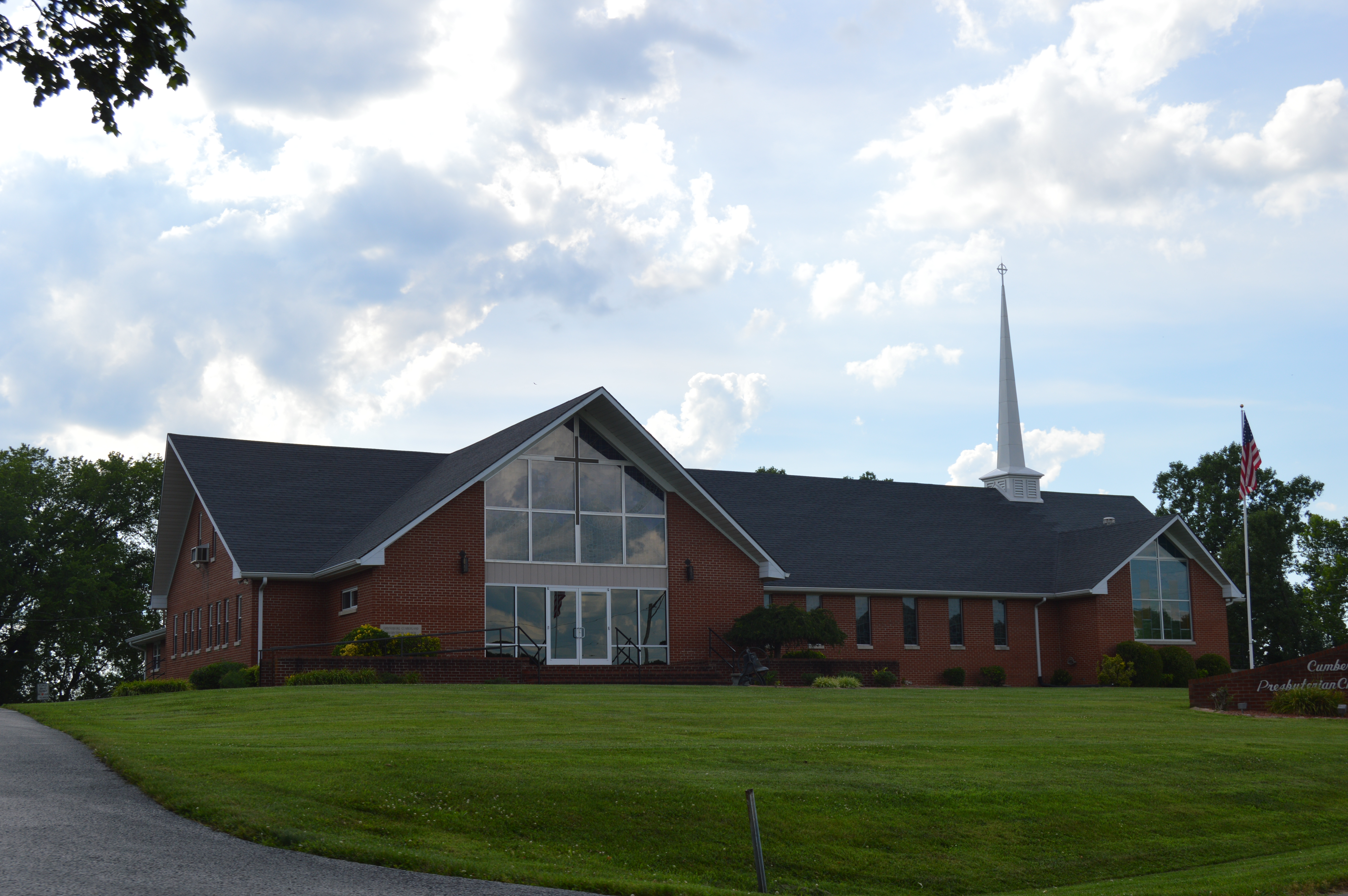 Eastern side of the Greensburg Cumberland Presbyterian Church, located on Old Hodgenville Road northeast of Greensburg in Green County, Kentucky, United States. The congregation's previous building is listed on the National Register of Historic Places.